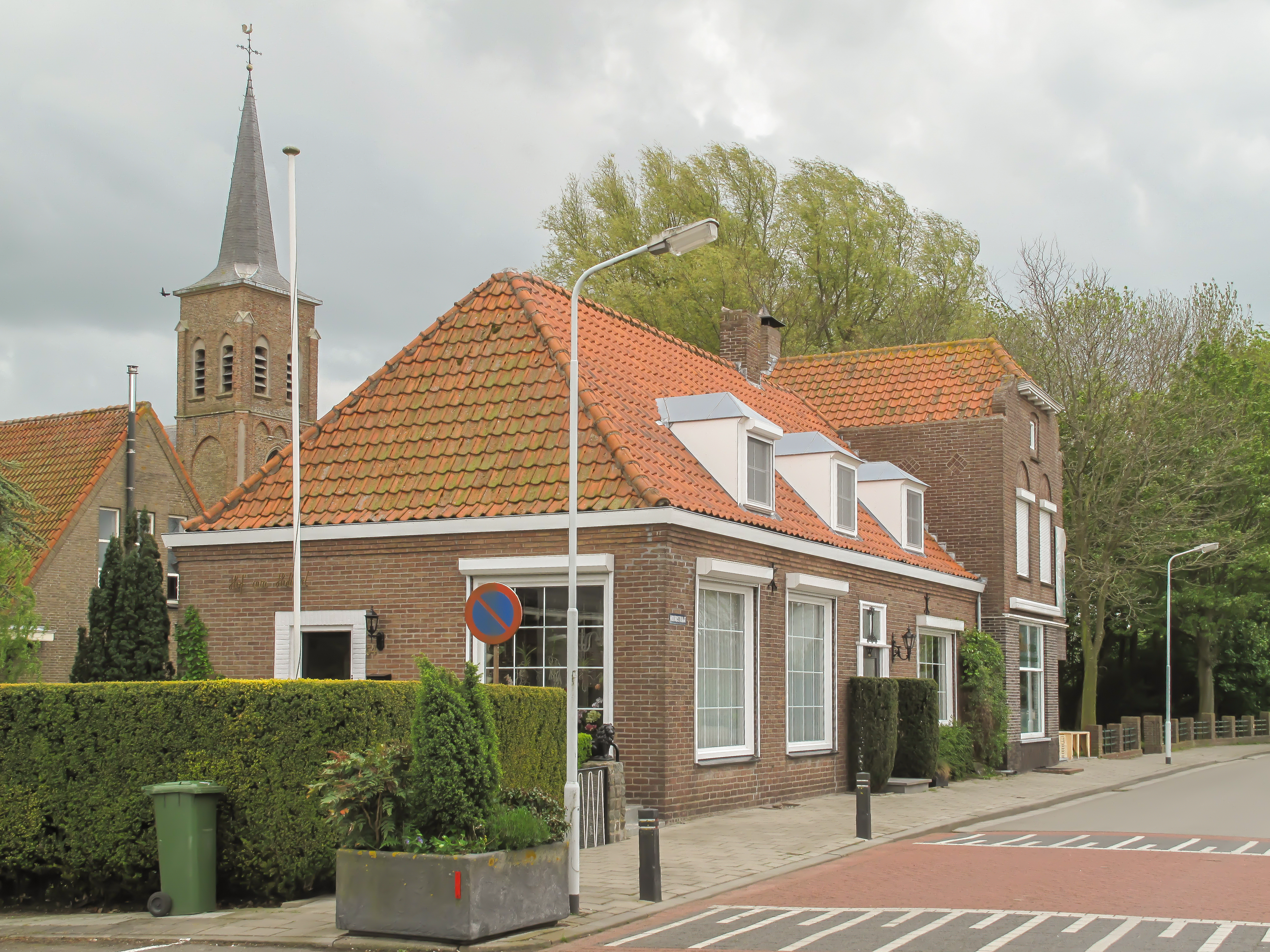 Biervliet, church (kerk Onze Lieve Vrouwe Onbevlekt Ontvangen) in the street